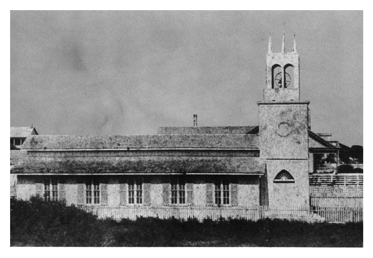 The original church building of First Presbyterian Church of Corpus Christi. Construction began in 1867.